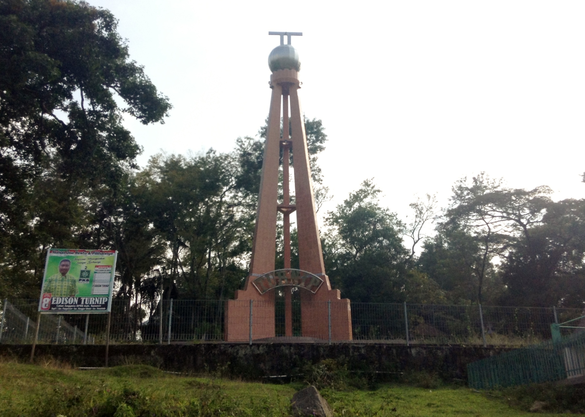 Monument of Turnip clan of Batak Tribe in Simanindo, SamosirBahasa Indonesia: Tugu Marga Turnip, suku Batak di Kecamatan Simanindo Samosir